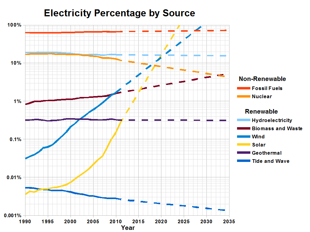 Electricity percentage worldwide by source on a semilog scale. Constant rates of increase or decrease plot as straight lines on a semilog plot. By 2012, solar power accounted for 0.41% of electricity, and wind power 2.32%. Hydroelectricity accounted for 16.32%, and nuclear power 11.01%. At current rates of increase (and decrease), solar power would reach 100% by 2025, hydropower would reach 22.50%, wind power would reach 15.95%, and nuclear power would decline to 3.47%. Data from EIA. This file may be updated annually.